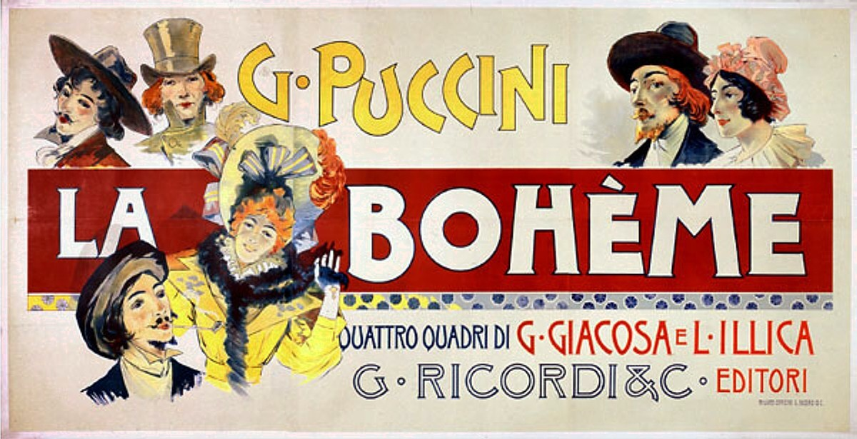 Poster for La Bohème by Giacomo Puccini